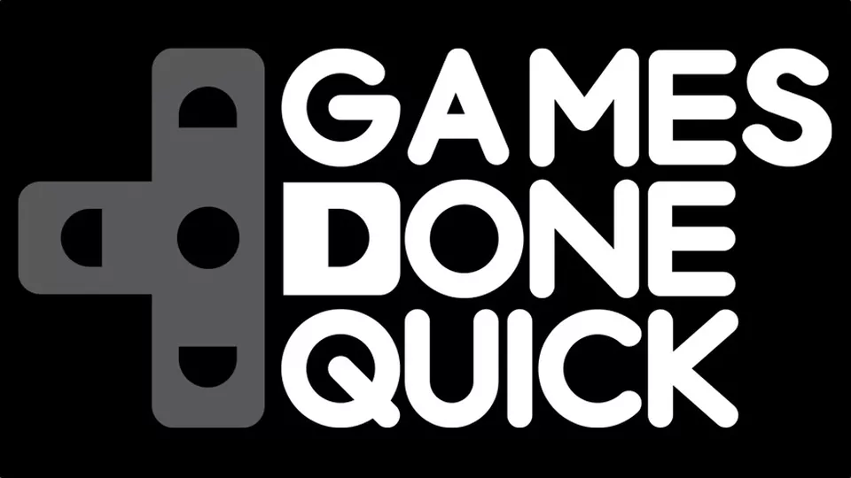 Official logo of Awesome Games Done Quick